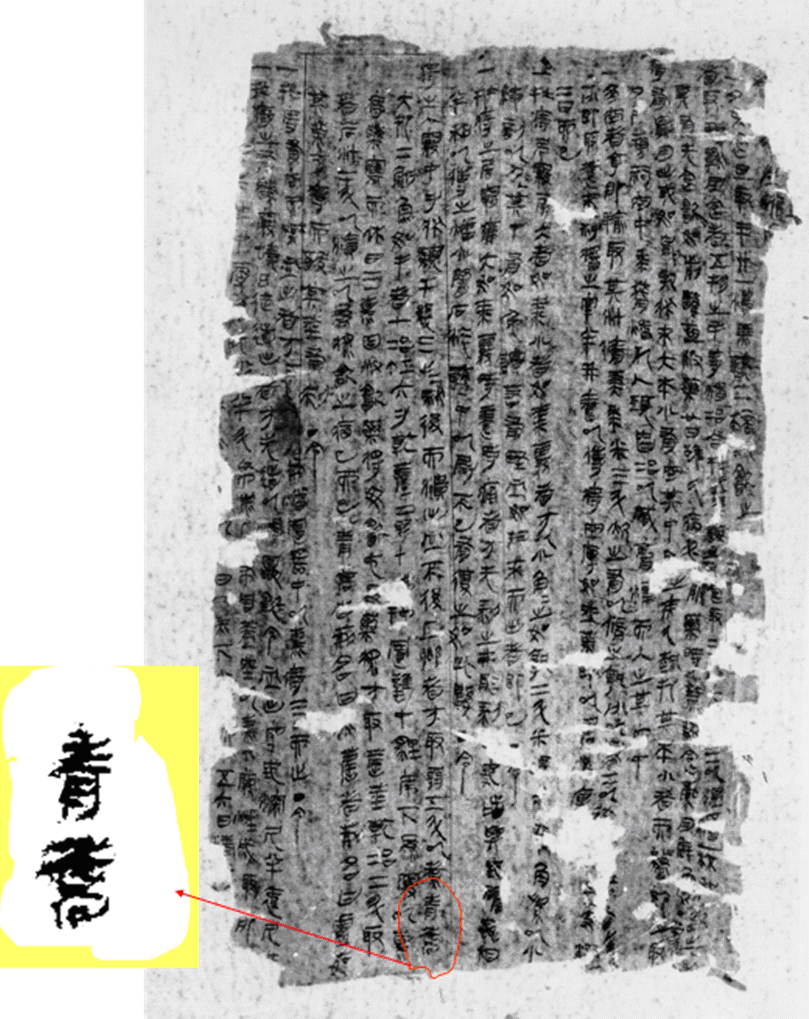 The Recipes for Fifty-two Kinds of Diseases among archaeological findings in the Mawangdui tomb mentioned Qinghao. A prescription book titled “The Prescription for fifty-two kinds of diseases” was unearthed in 1979 from a Han Tomb (Han dynasty 206 BC – 220 AD) at Ma Wang Dui in the Hunan Province. This is the earliest known Chinese medicinal recipe book. Qinghao was recorded for treatment of hemorrhoids.